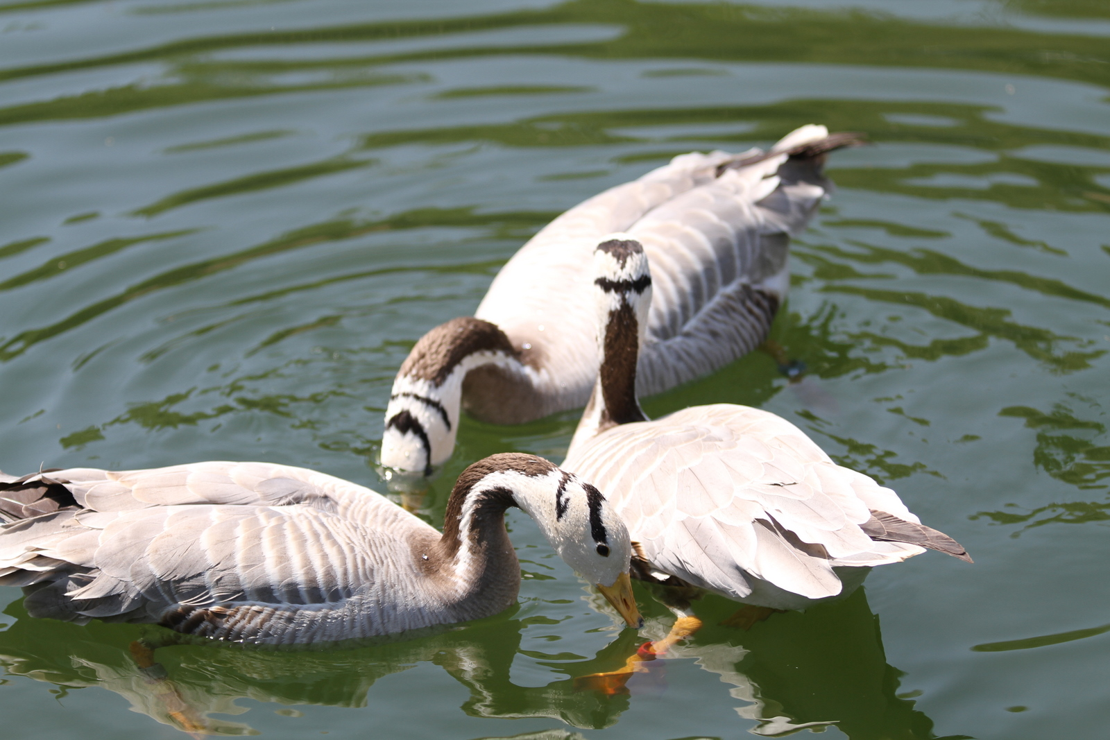 Three Bar-headed Geese at Tama Zoo, Hino, Tokyo, Japan.